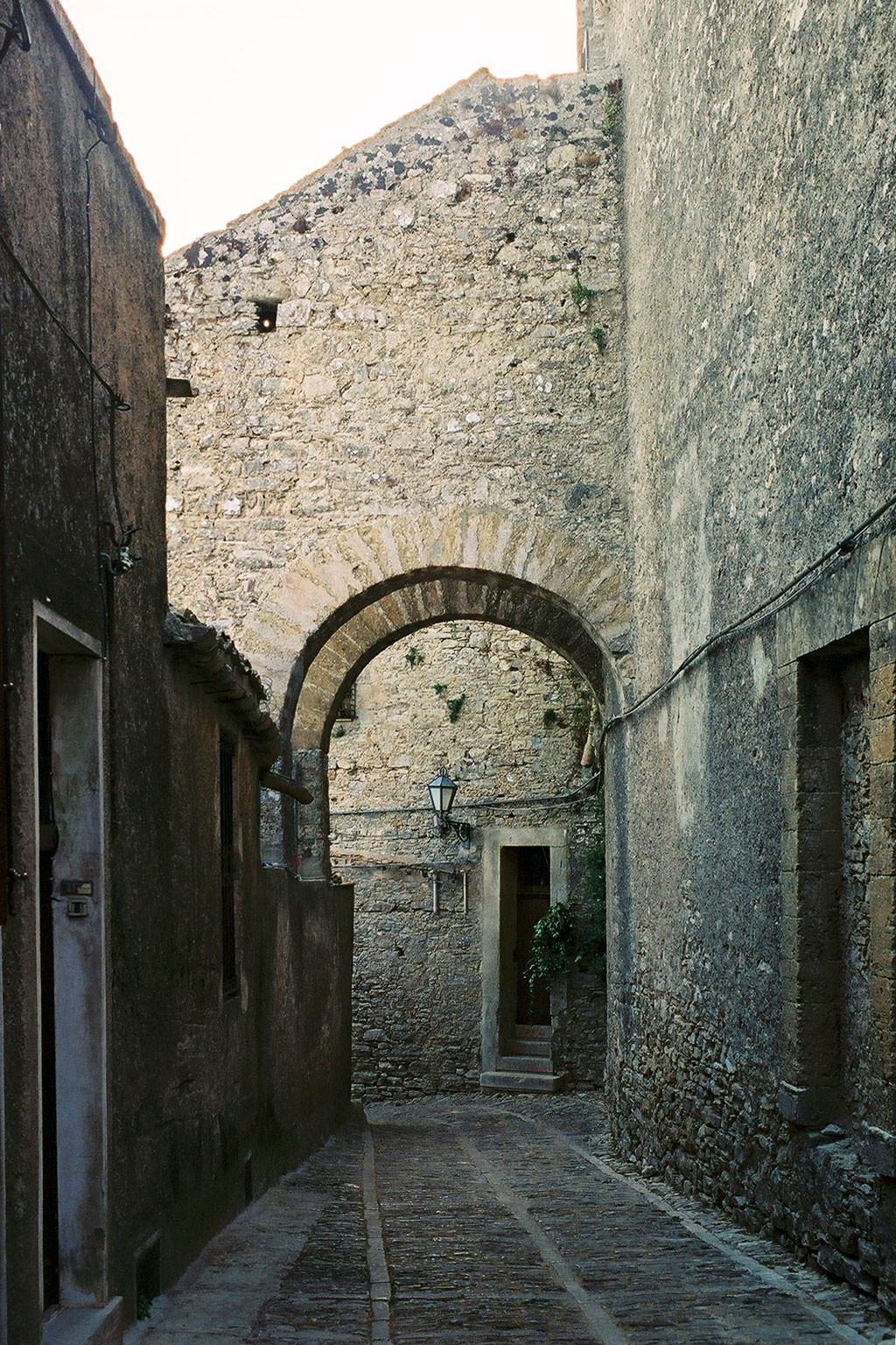 Erice Small lane with archway